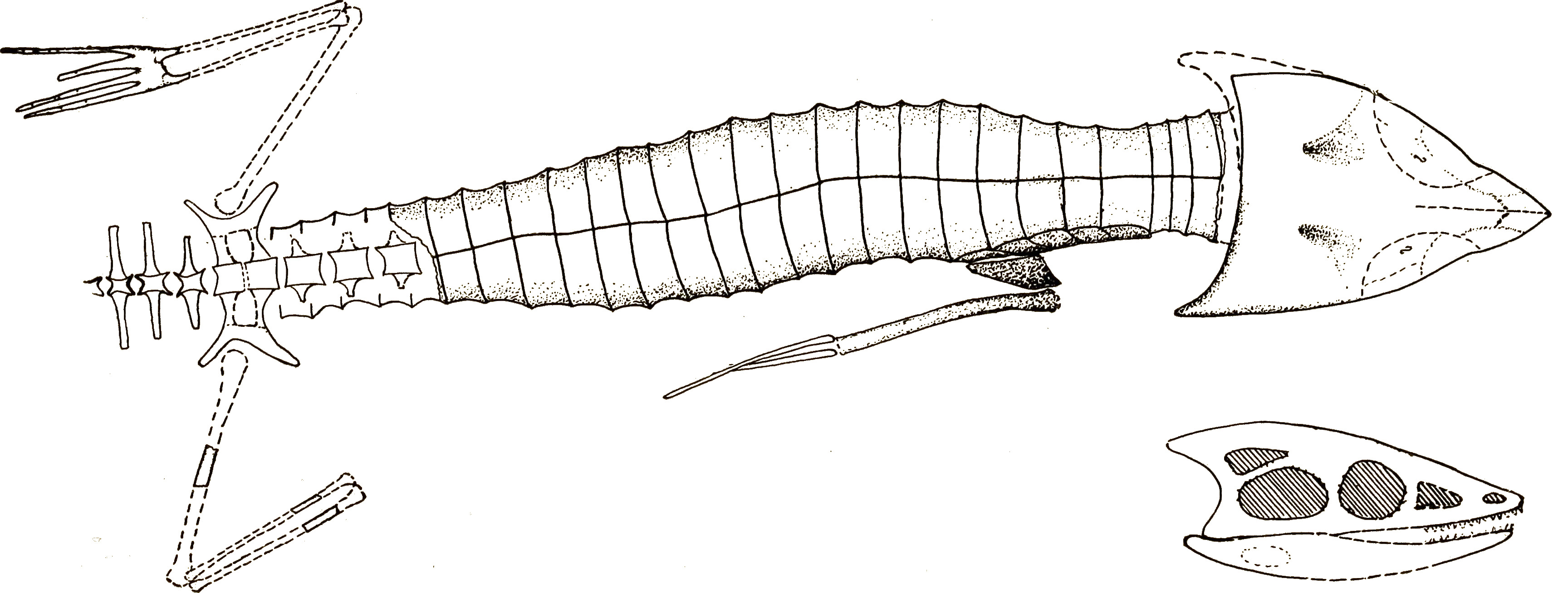 Title: The American journal of science Year: 1880 (1880s) Authors: Subjects: Science Publisher: New Haven : J. D. & E. S. Dana Text Appearing Before Image: Am. Jour. Sci., Vol. XVII, 1904. 1 Plate XXII Text Appearing After Image: '